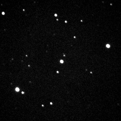 The star WASP-1. Taken with a 16" Meade LX200 telescope and SBIG ST-L digital camera at the Barus & Holley Observatory in Providence, RI with no filter on 2007-01-27.018